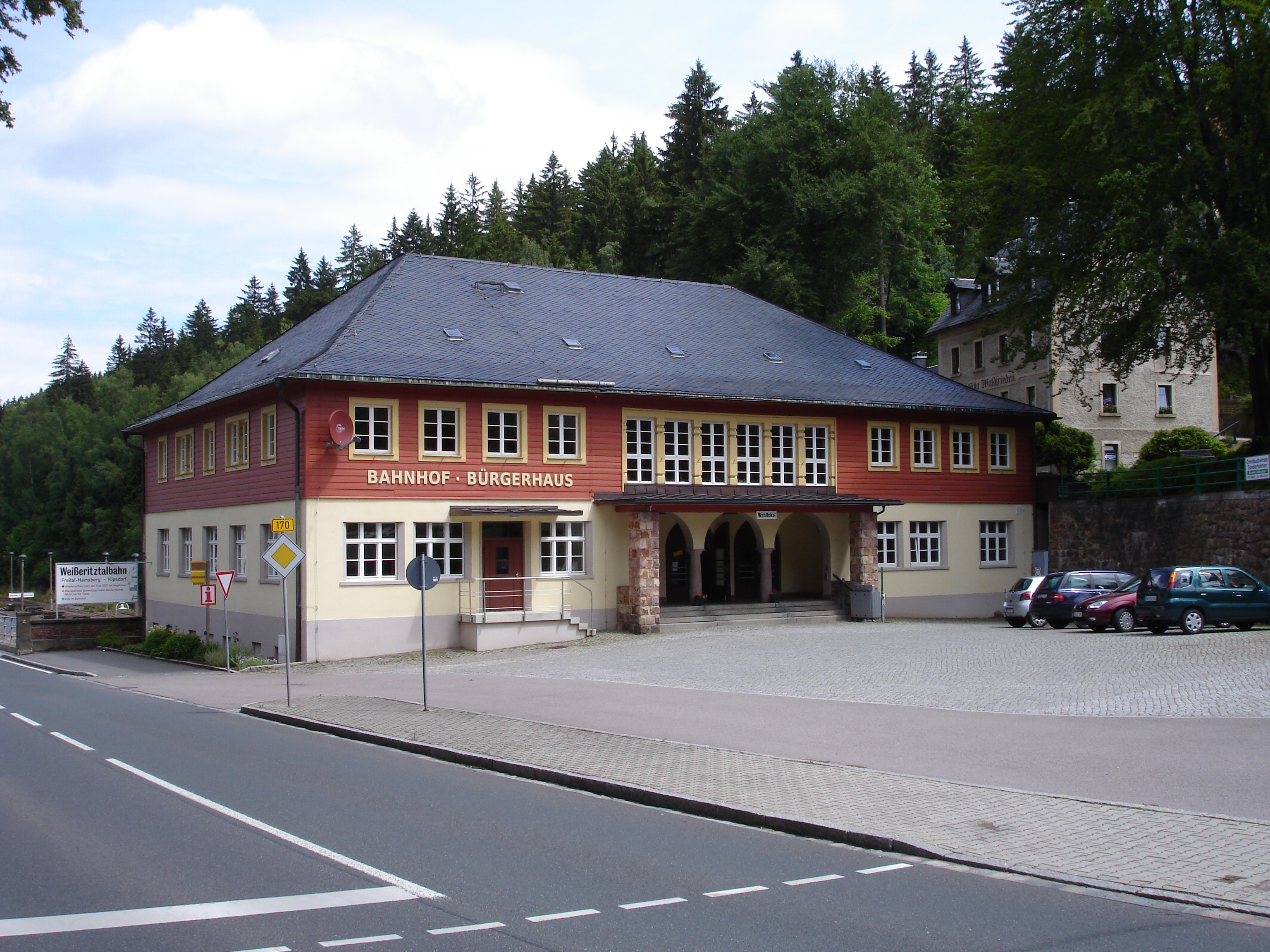 station Kurort Kipsdorf, Weißeritztalbahn, Saxony, Germany